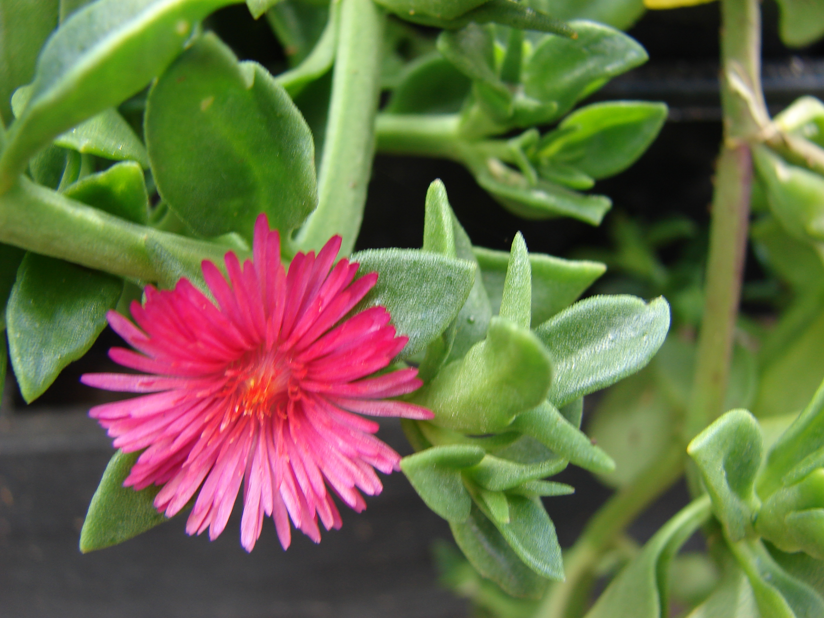 Aptenia cordifolia (flower and leaves). Location: Maui, Kula Ace Hardware and Nursery